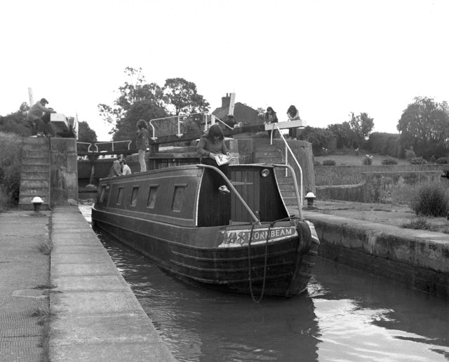 Bascote Locks, Grand Union Canal (2) Here the boat has moved into the chamber of Lock No 15. The intermediate gates will be closed and the lock then emptied, allowing the boat to move out.